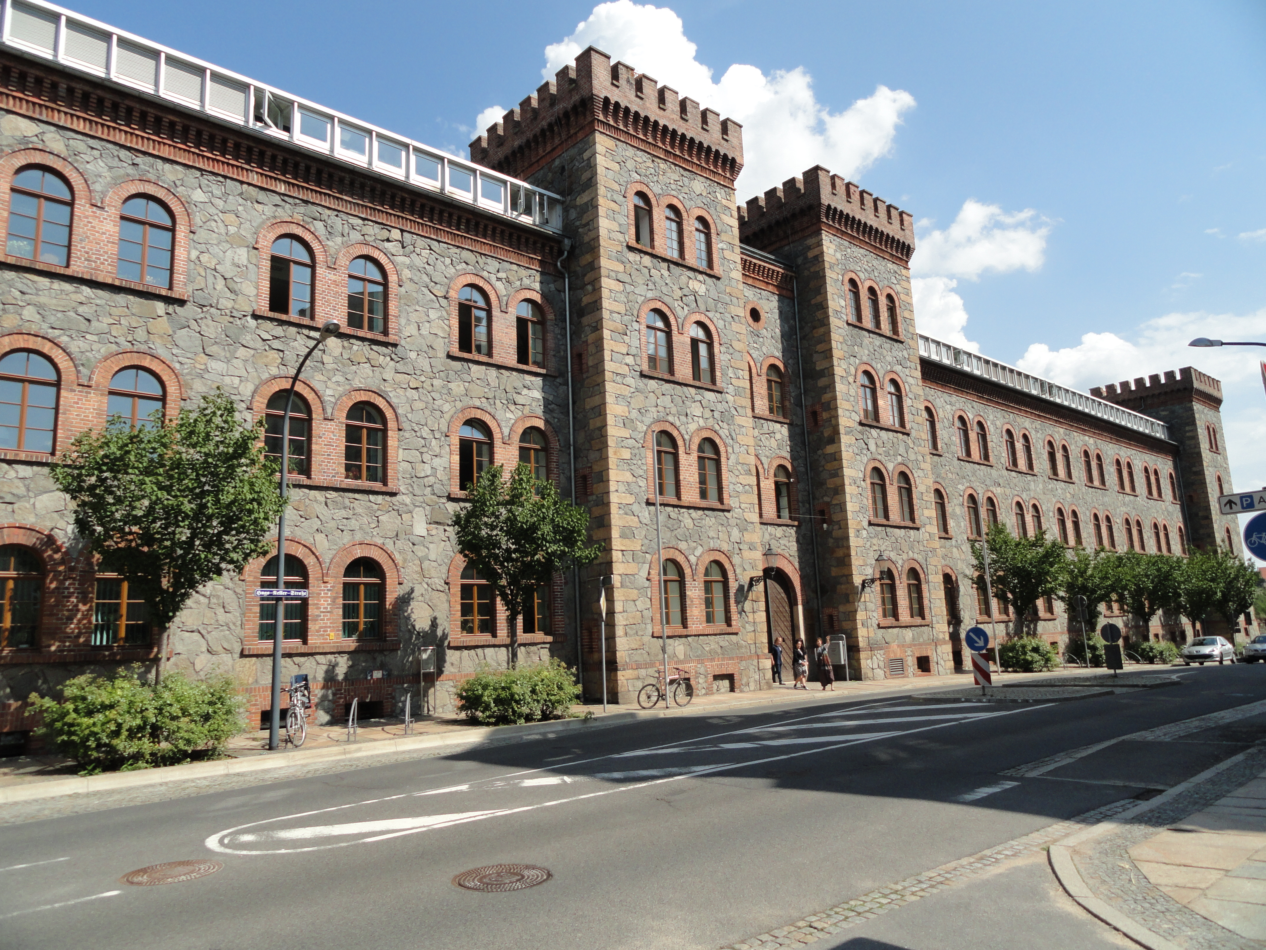 former barrack Jägerkaserne in Görlitz, Saxony